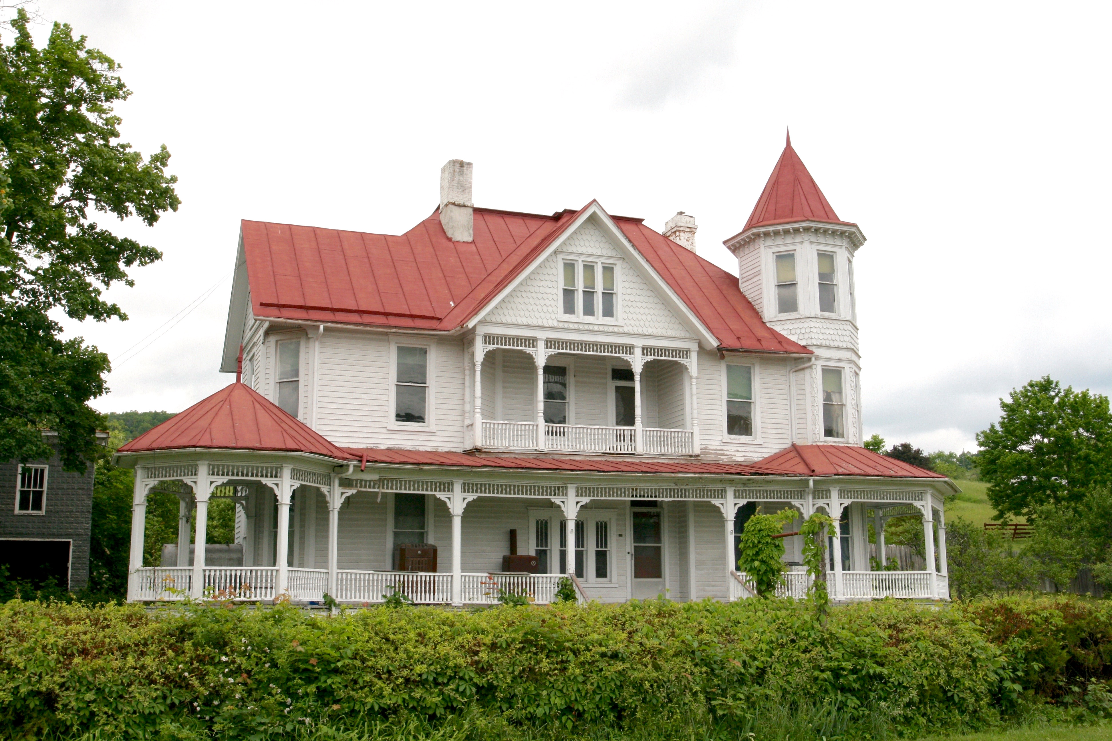 The Dr. Preston Boggs House in Franklin, West Virginia